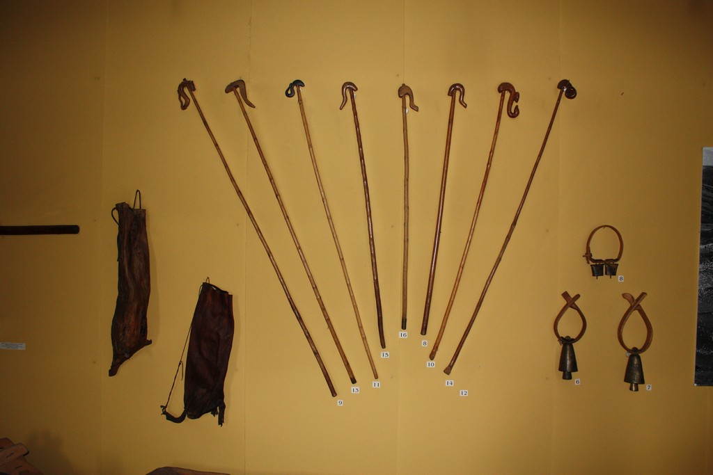 Museum of Macedonia_150 An artefact in the Ethnological section of the Museum of Macedonia, Skopje.